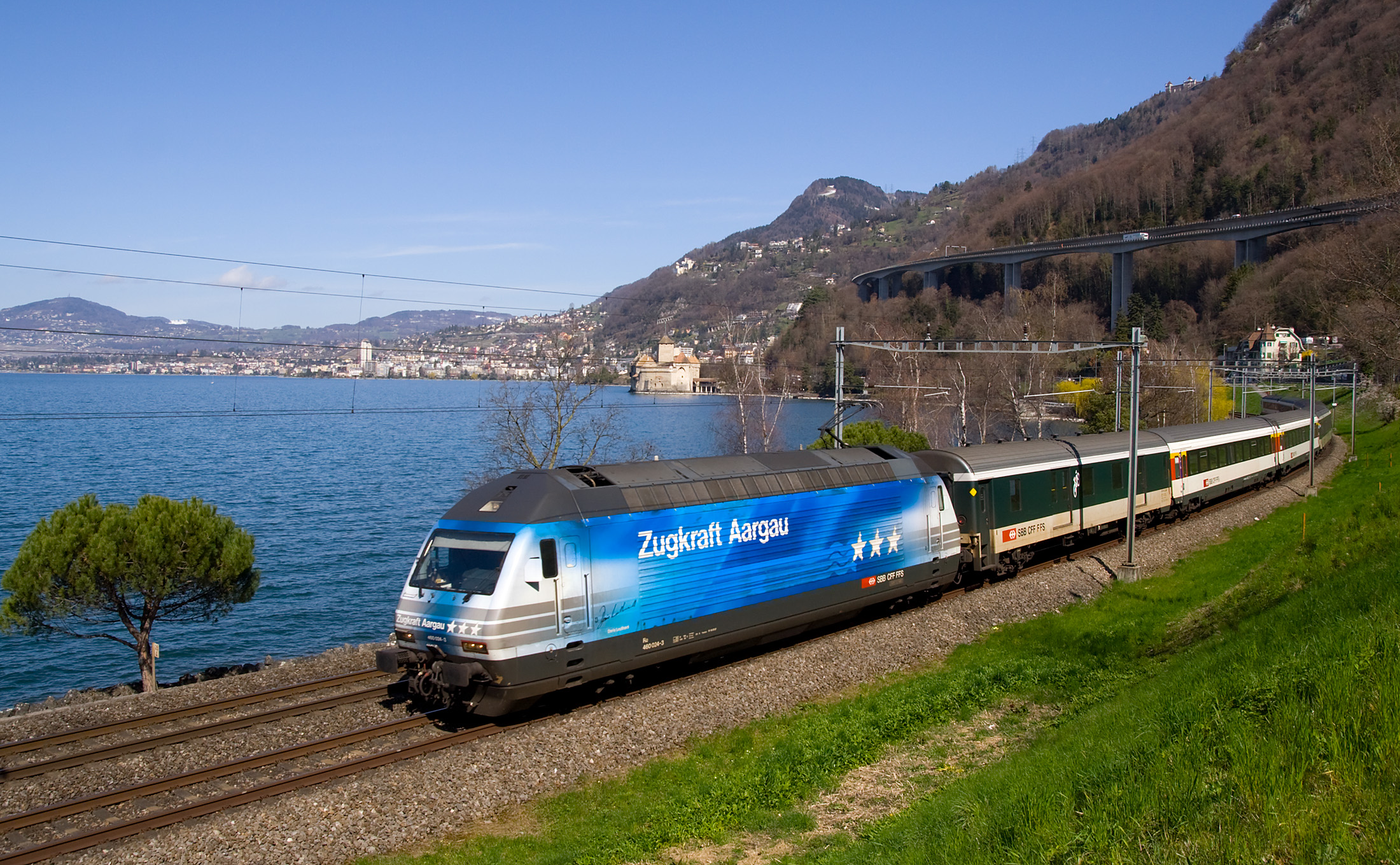 SBB Re 460 "Zugkraft Aargau" following the lake Geneva shoreline with an Intercity train to Brig.